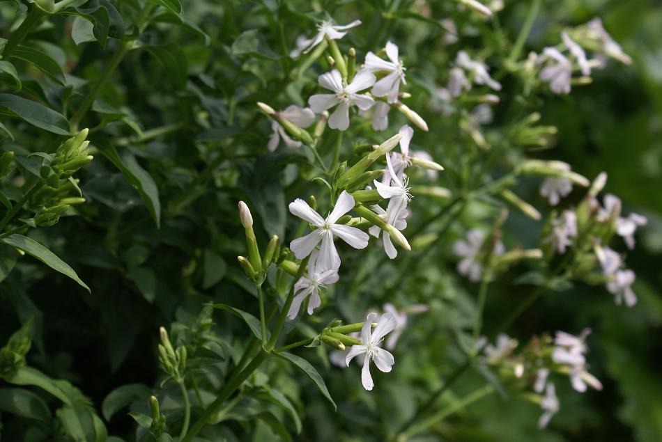 Saponaria officinalis